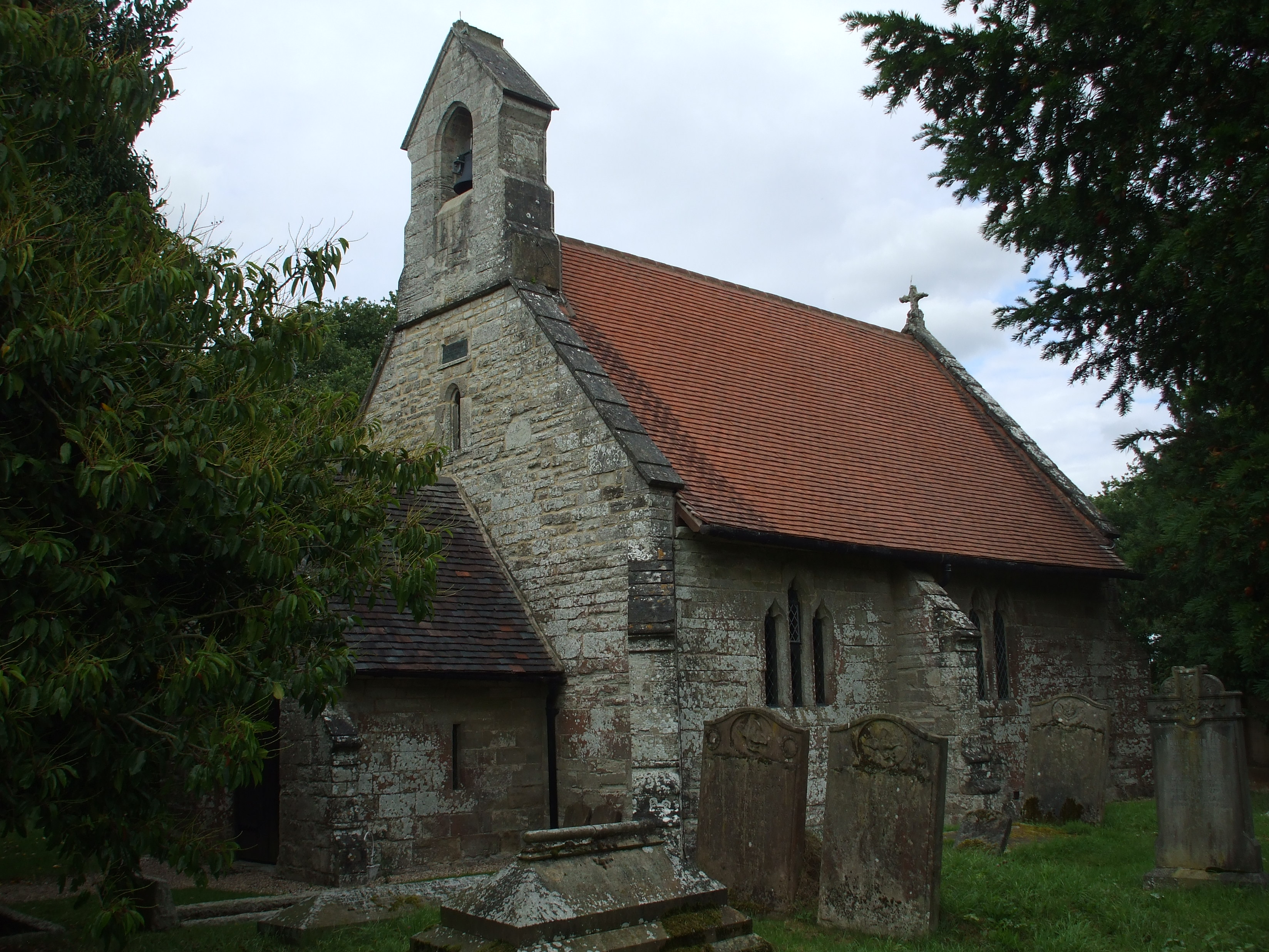 The old chapel of St Mary, Ullenhall, Warwickshire. This is the chancel of Ullenhall's medieval parish church, the rest of which was demolished when the new church or St Mary the Virgin in the centre of the village was consecrated in 1875.